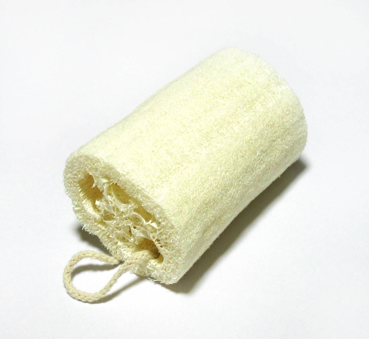 Loofah (Hechima).